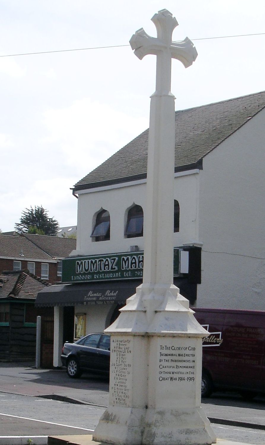 Photograph of the War Monument, South Benfleet, Essex, United Kingdom